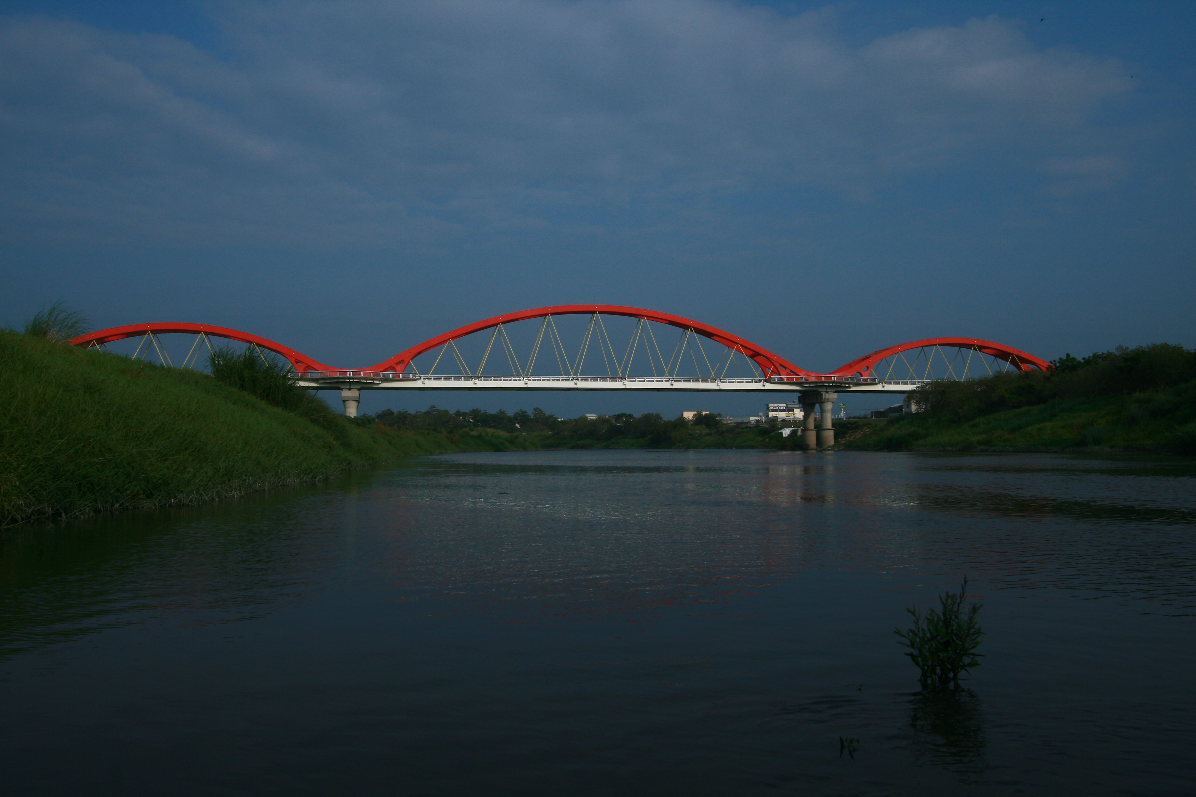 Beigang Tourist Bridge is 450m long and 6m wide.The three of arches are composed like a dragon.